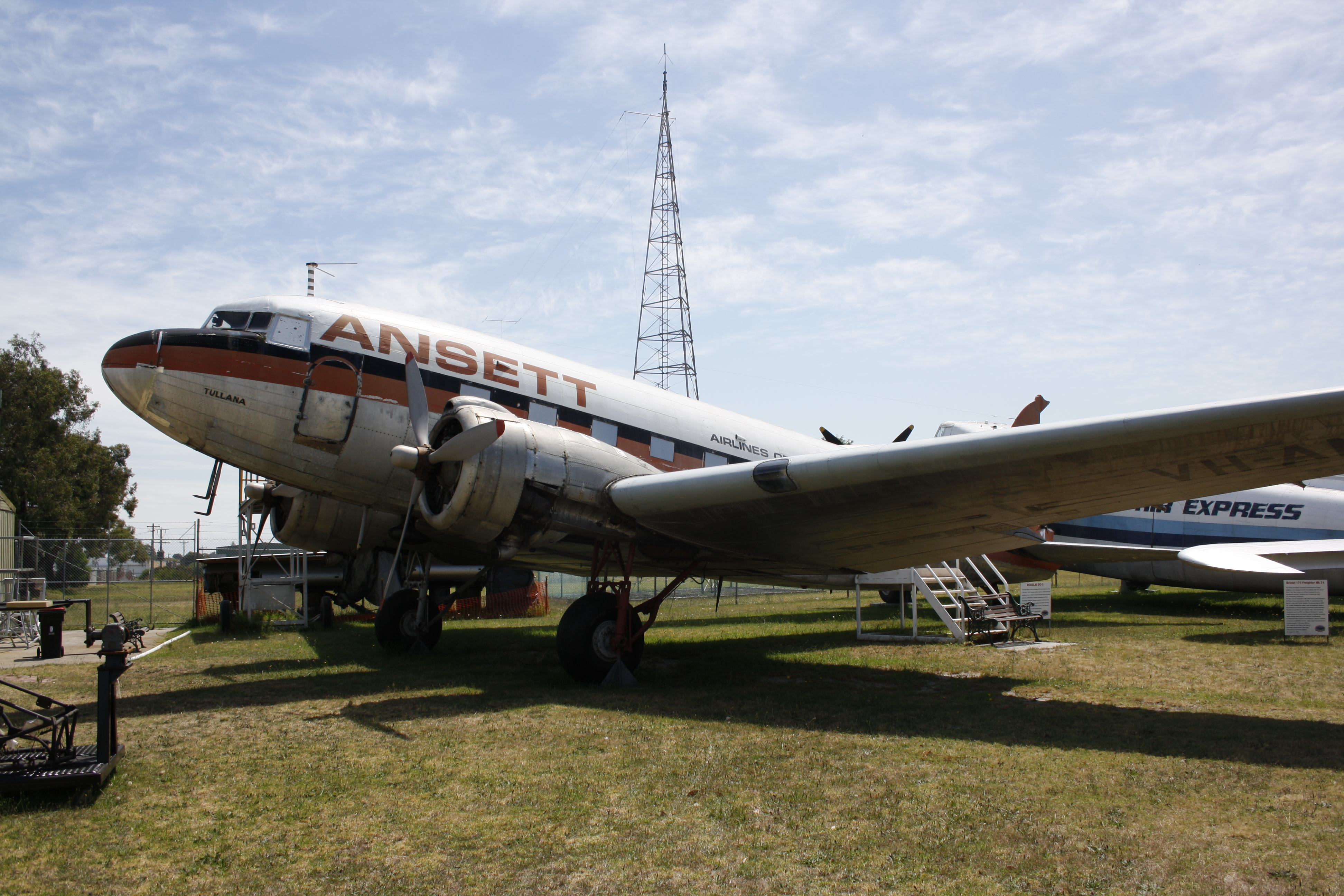 Australian National Aviation Museum (ANAM) Ansett DC-3